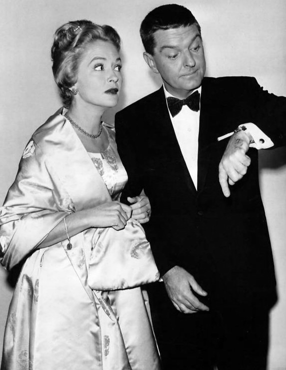 Publicity photo of Peter Lind Hayes and Mary Healy from the television program The Tonight Show.